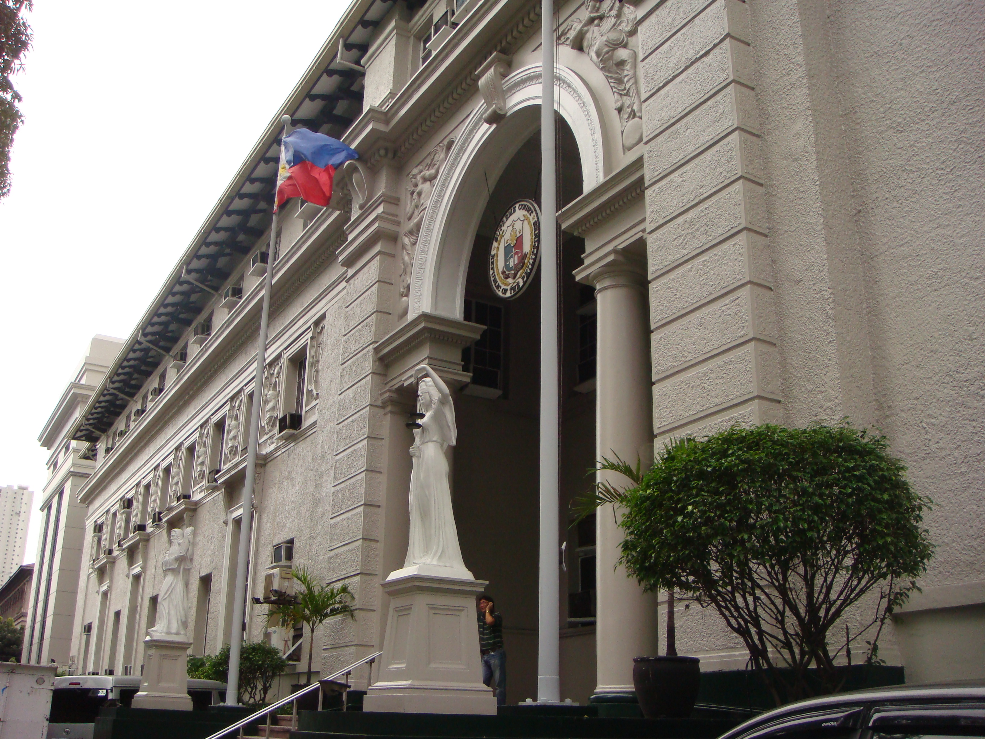 The 1933 old Supreme Court Building